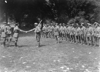 Members of the Australian 10th Brigade, including members of the 39th and 40th Battalions, on parade in July 1918